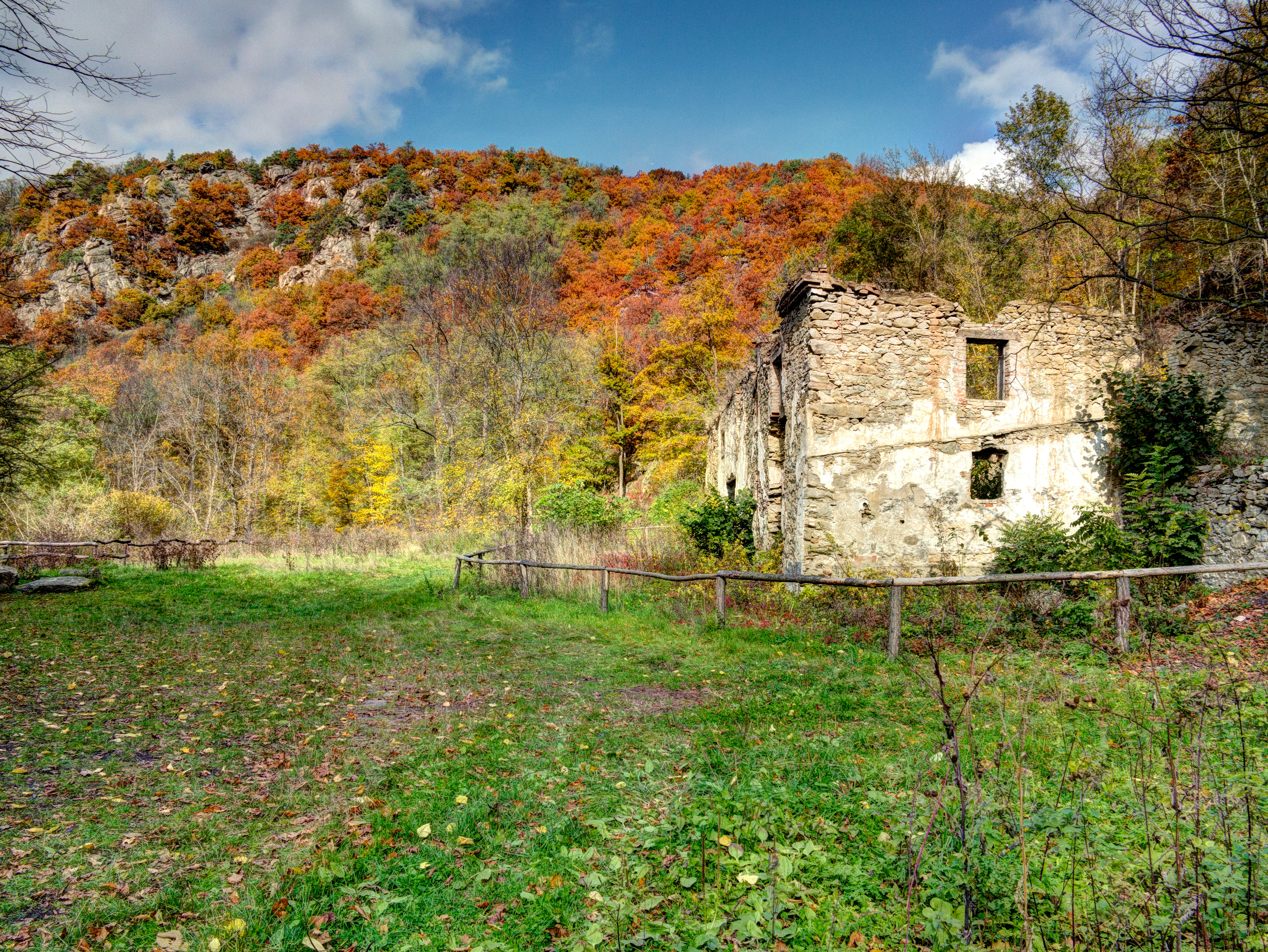 A derelict mill in the area of Nine mills in Podyjí National Park, a national park in the South Moravian Region of the Czech Republic / EU. The former German-speaking owners of the mill were expelled in 1945. Since then the building falls. Autumn mood in October.